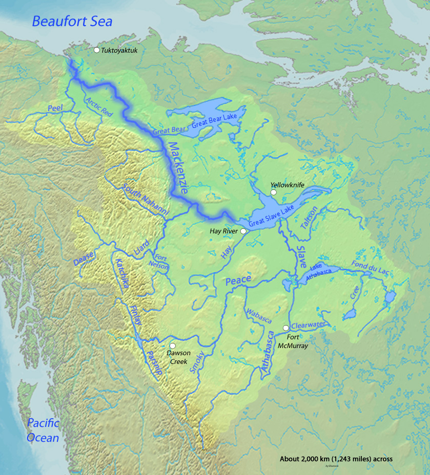 Map of the Mackenzie River, second greatest river in North America, that drains to the Arctic Ocean